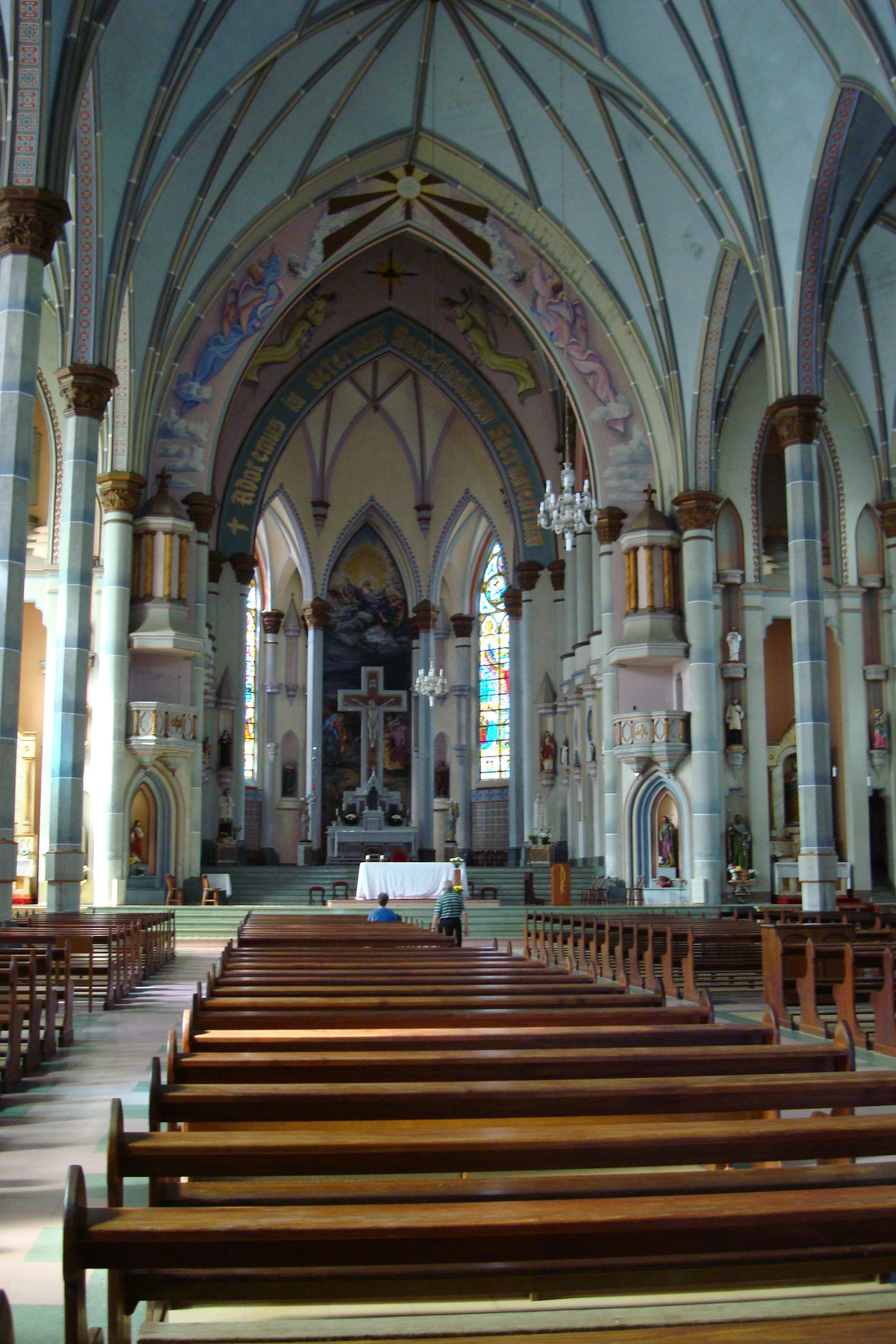 Santa Cruz do Sul Cathedral